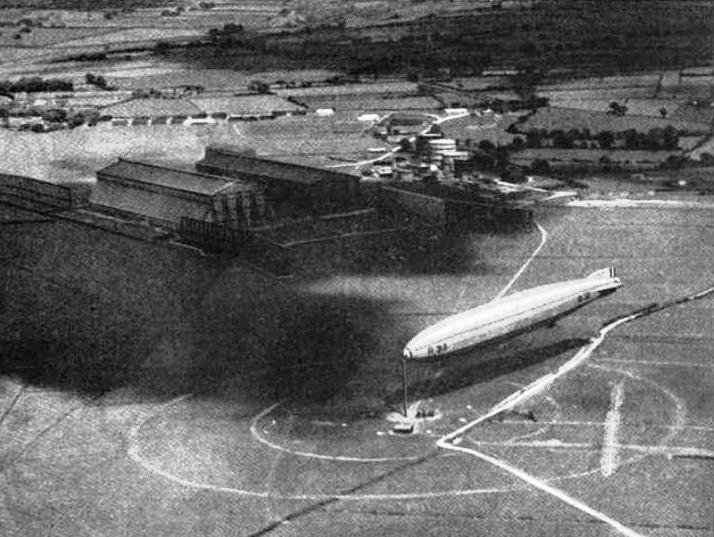 Photograph taken from the air of airship R-33 at its mooring mast circa 1921. The photo is taken at RNAS Pulham looking in a north-easterly direction. Airship shed 2 is on the left and airship shed 1 is on the right. The large hydrogen gas tanks can be seen in the background.